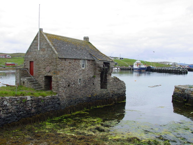 Hanseatic Trading Booth at Symbister Whalsay. Hanseatic Trading Booth at Symbister Whalsay. Key available to view inside from shop opposite.